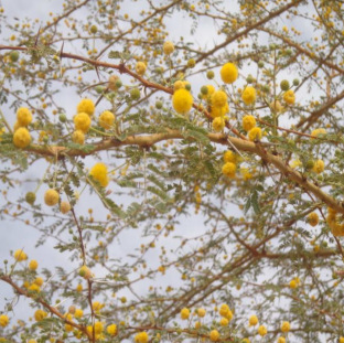 Senegalia senegal flowers